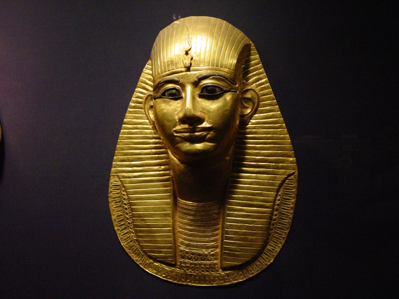 A Grave mask of pharaoh Amenemope of the 21st Dynasty of Egypt. (Cairo Museum).